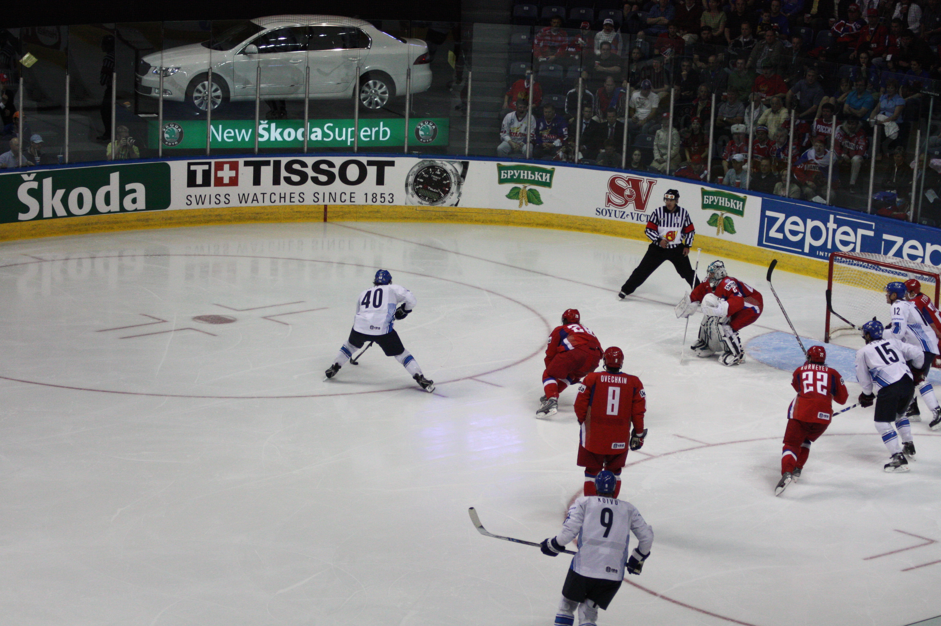 Finland - Russia Semifinal IIHF World Championship 2008